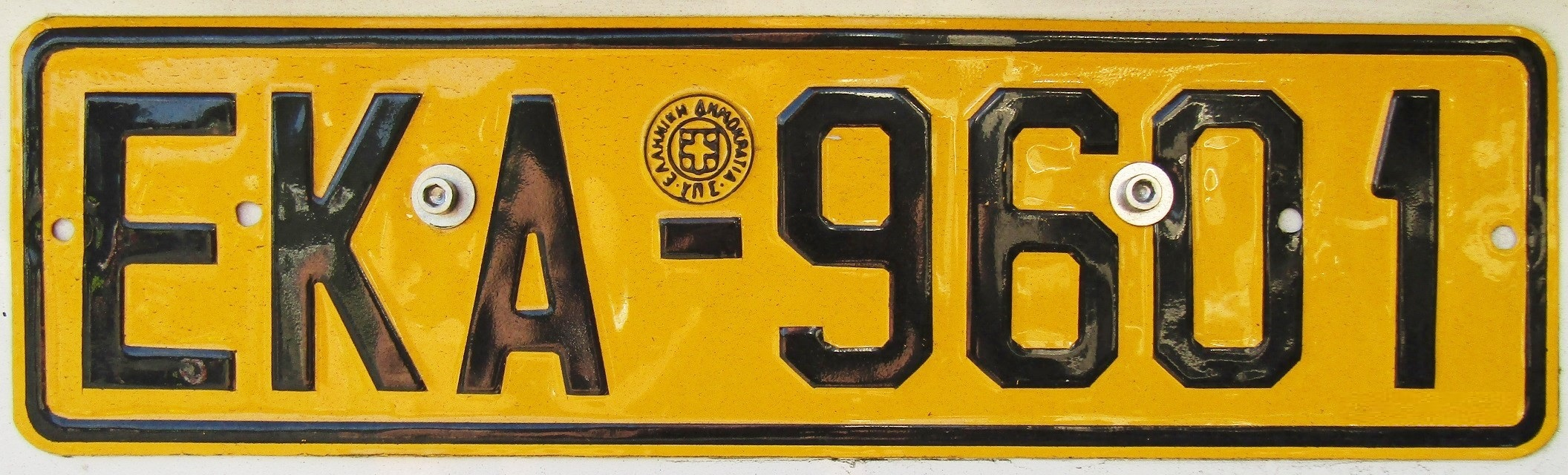 Greek truck license plate EKA